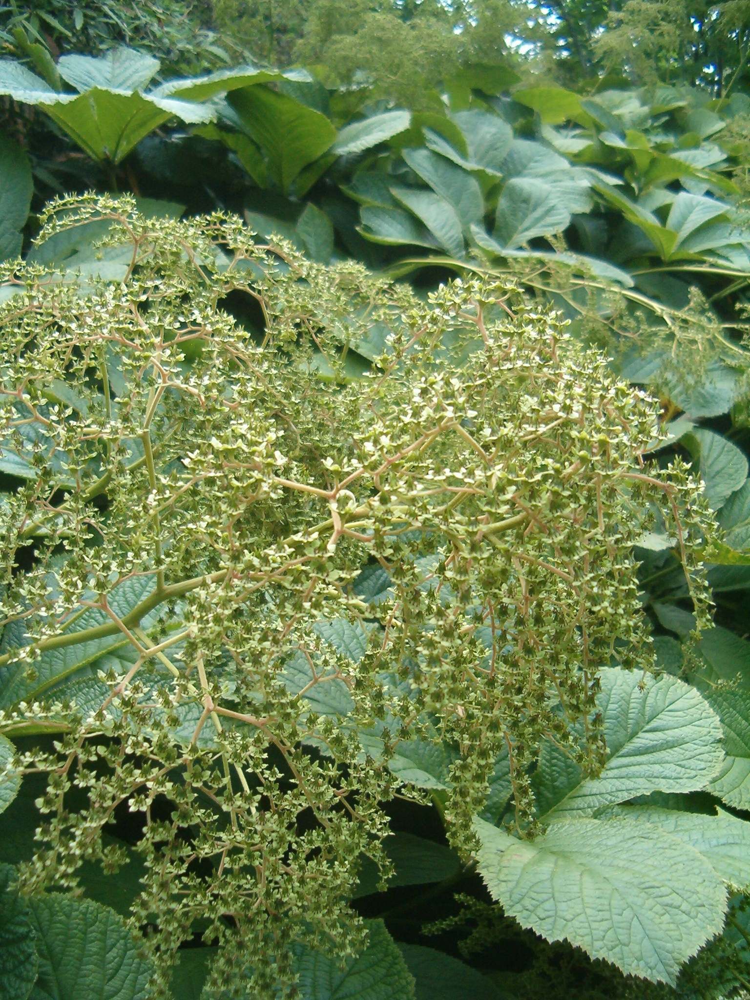 At Botanical Gardens Berlin-Dahlem Species Rodgersia aesculifolia